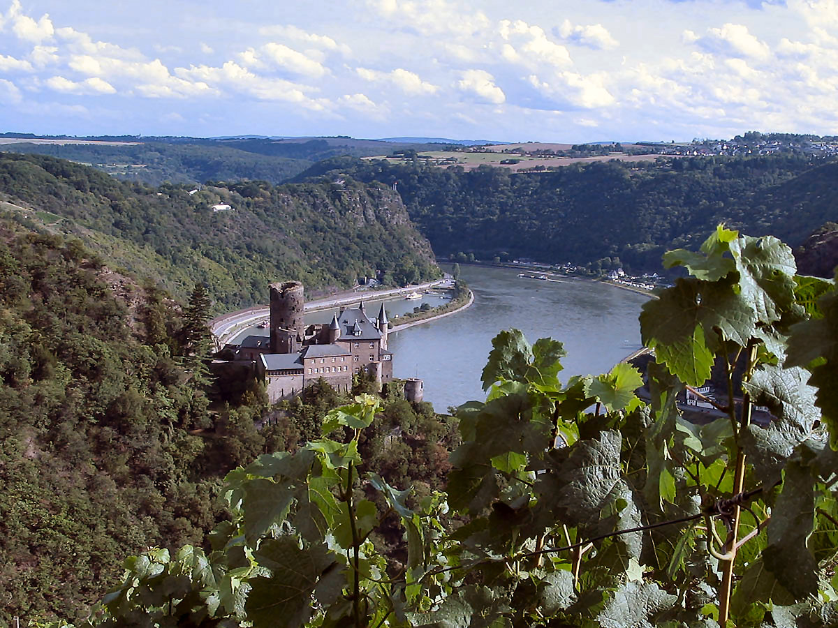 View from Patersberg of the castle Burg Katz and part of the Upper Middle Rhine Valley. In the background is the Lorelei.